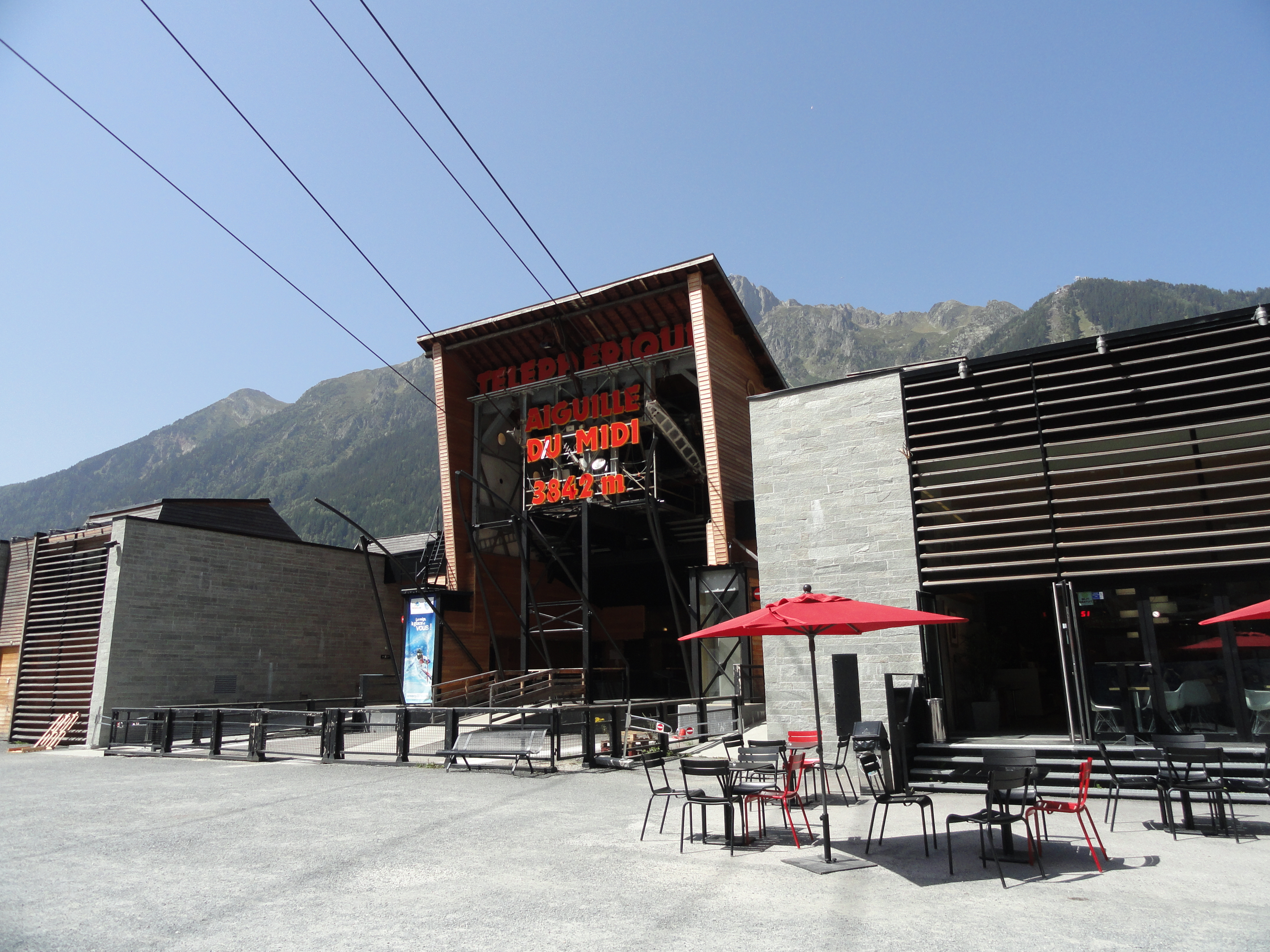 Aiguille du Midi Cable Car, Chamonix, France.